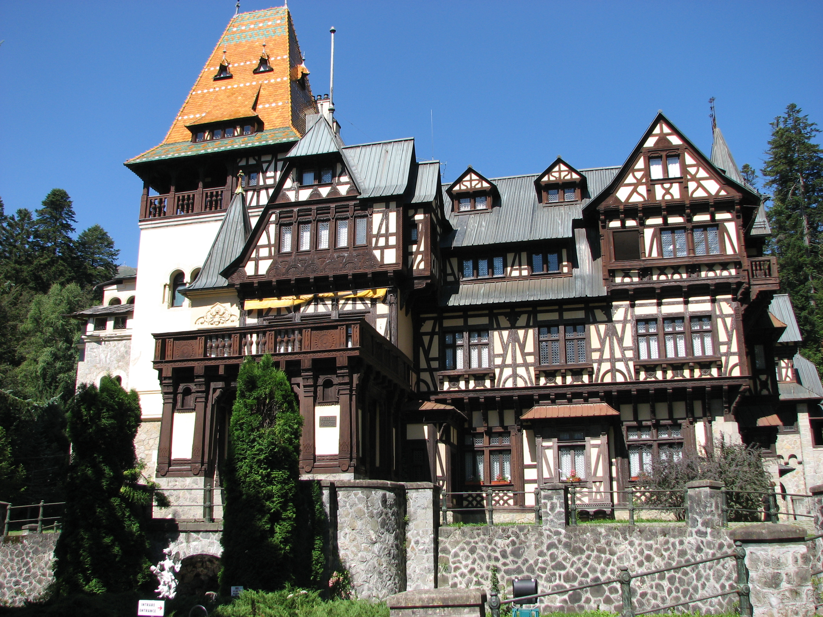 Pelisor Castle, SinaiaPelisor Castle